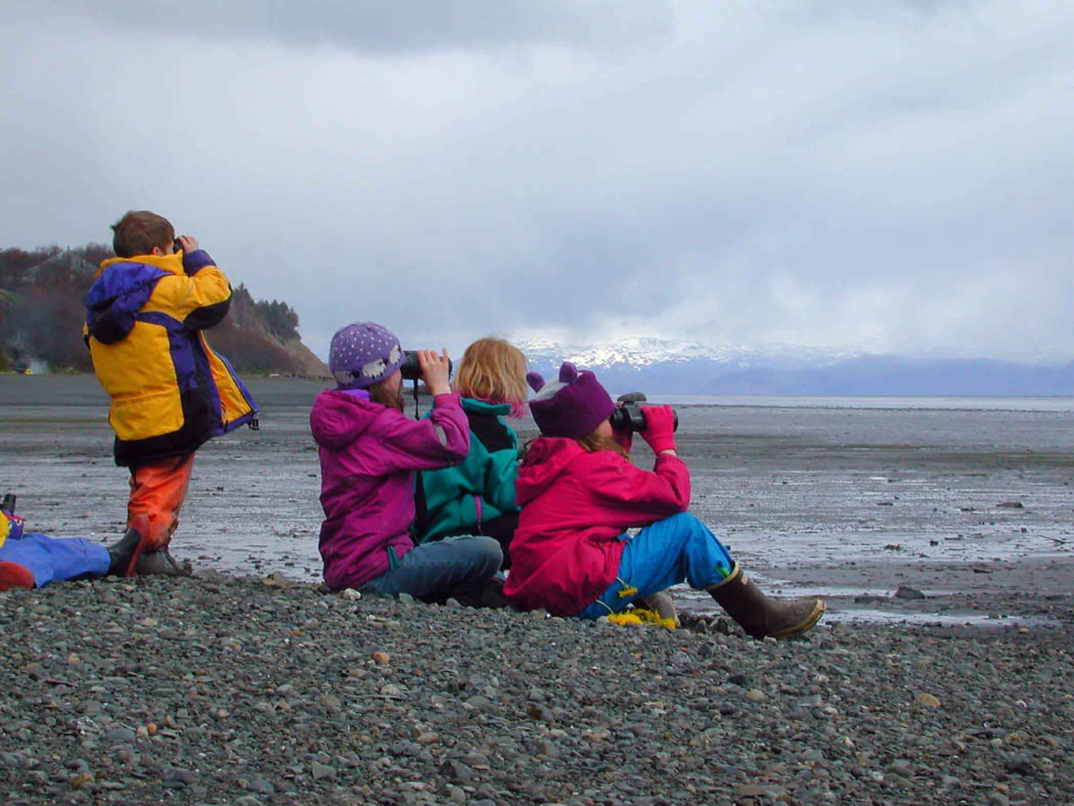 Image title: Children sit on the beach and watching the horizon with binoculars Image from Public domain images website